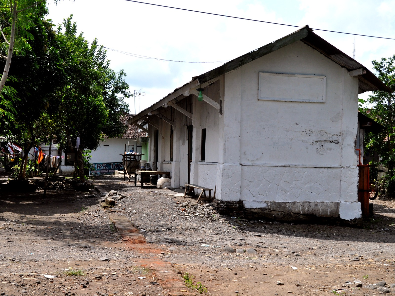 Former Sukodono train station in Lumajang, East Java, Indonesia. Now it's becoming a house.